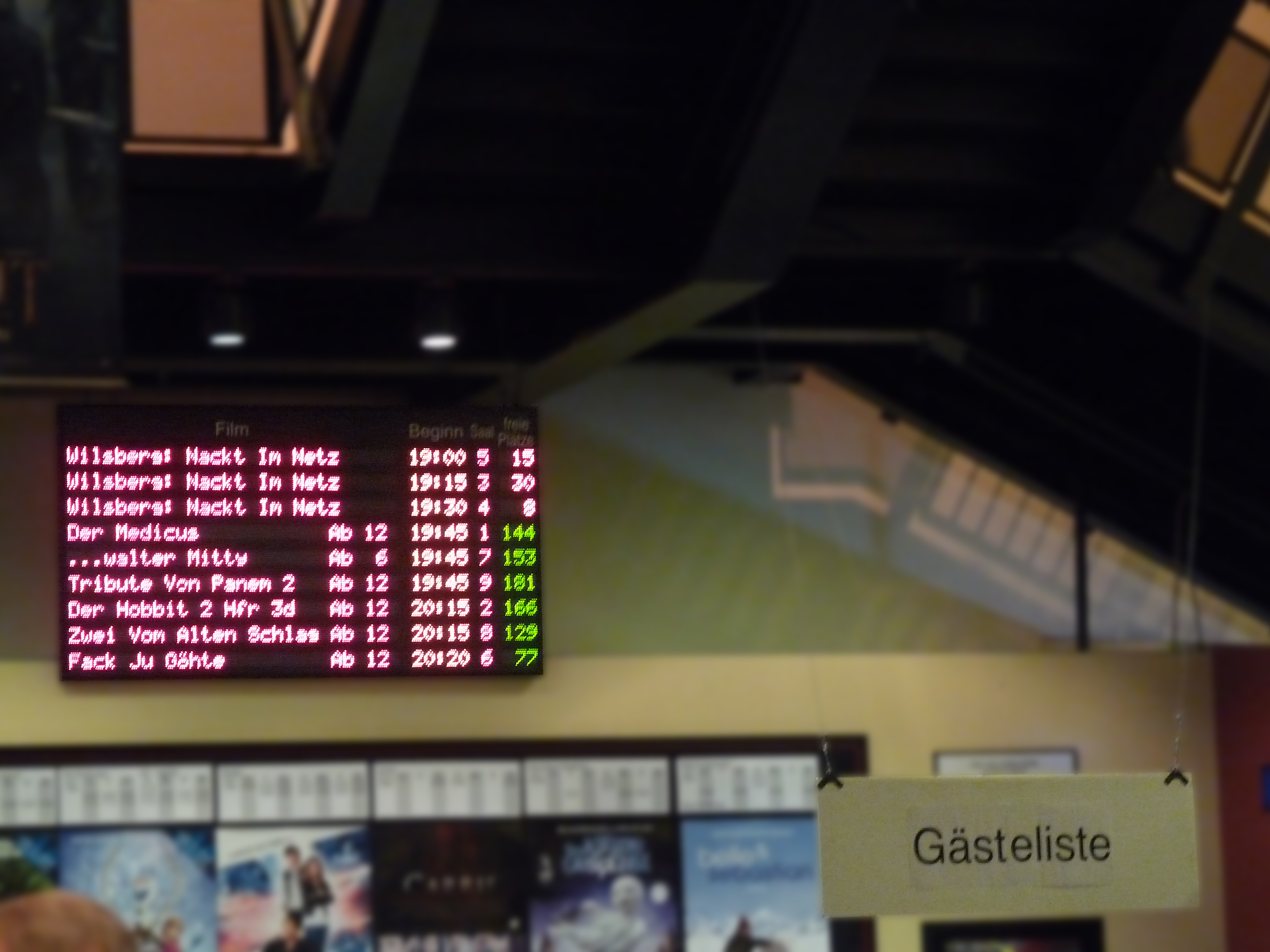 Premiere of Wilsberg: Nackt im Netz in the Cineplex in Münster